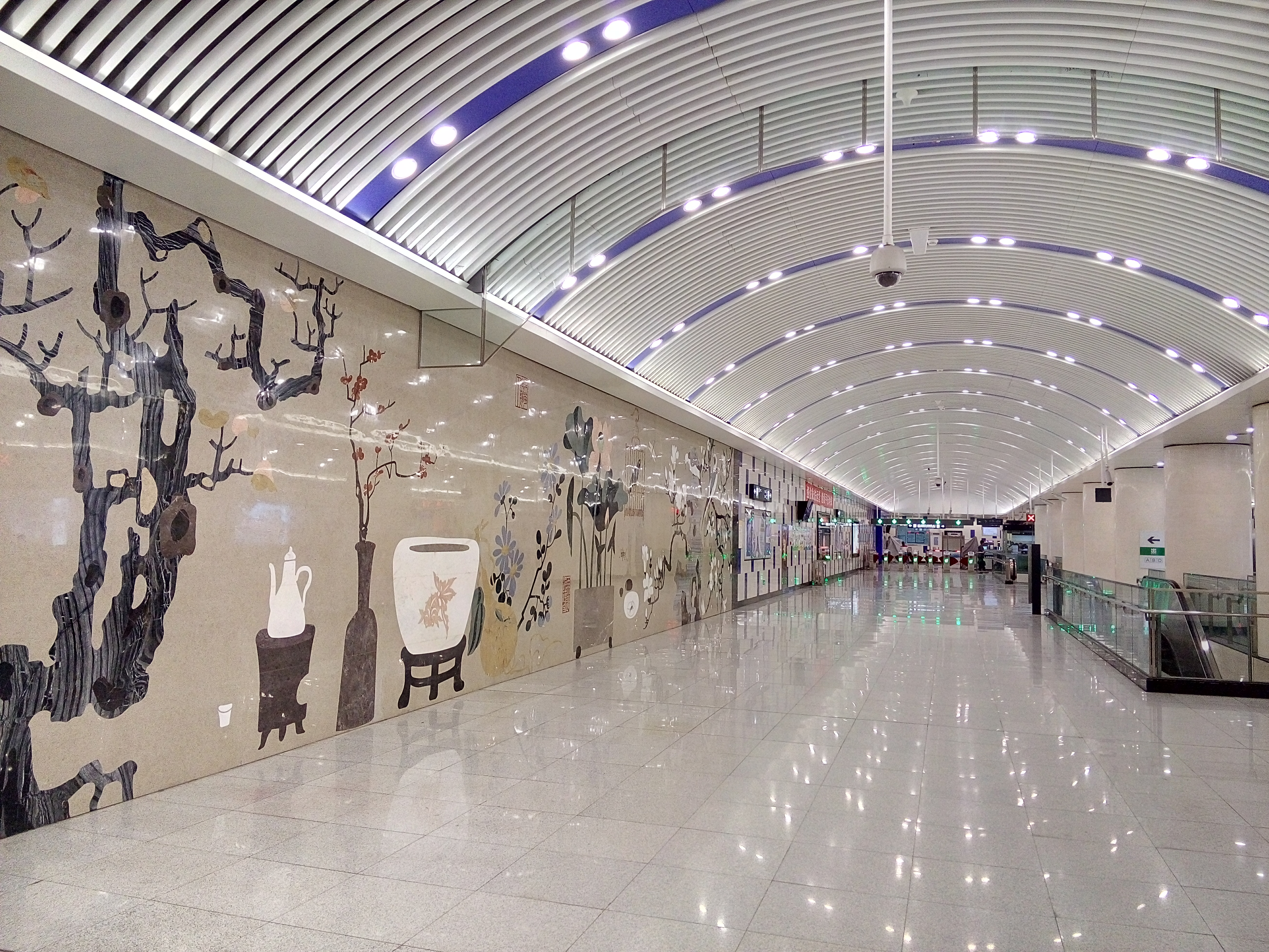 Wuzixueyuanlu Station